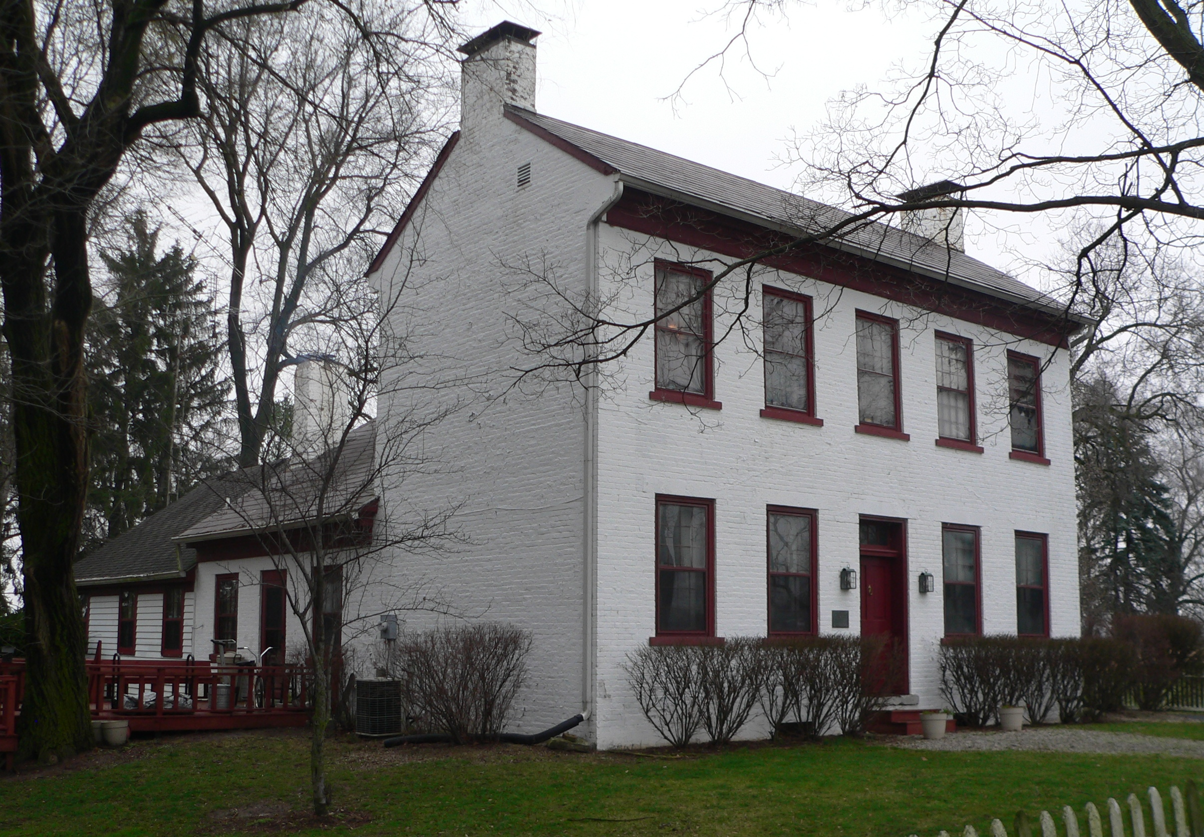 Lewis Jones House, located at 5224 College Corner Road, northeast of Centerville, Indiana; seen from the southwest.